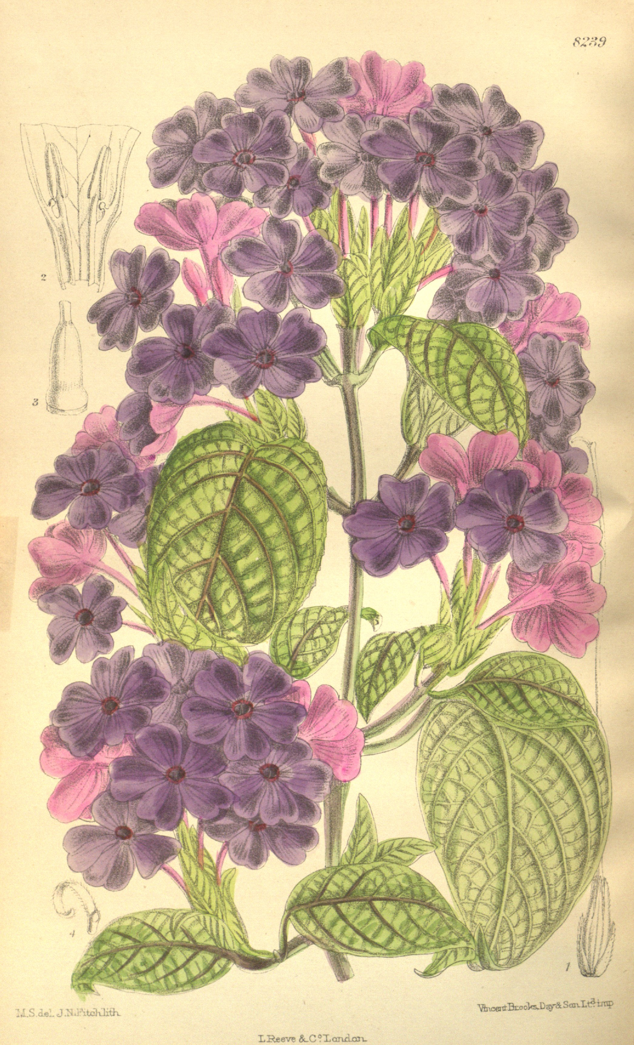 Eranthemum wattii, Acanthaceae